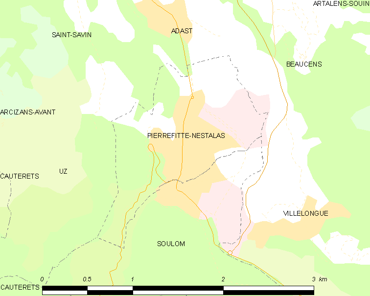 Map of French municipality